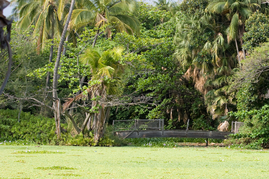 This is a picture of the wetlands beside Punalu`u Beach on the Big Island of Hawaii.